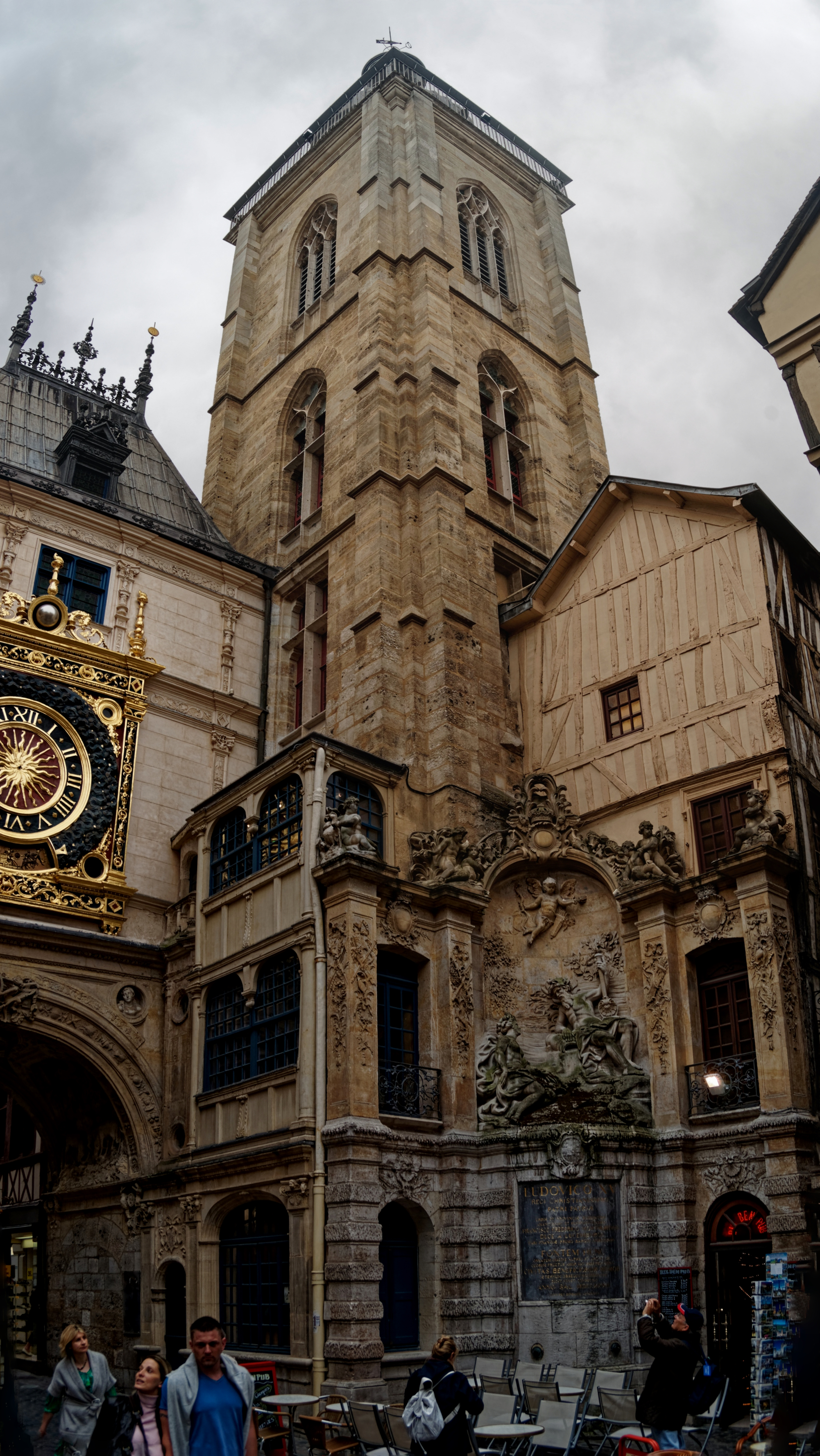 Rouen - Rue du Gros-Horloge - ICE Photocompilation Viewing South on XIV Century Beffroi / Belfry & Fountain 1743